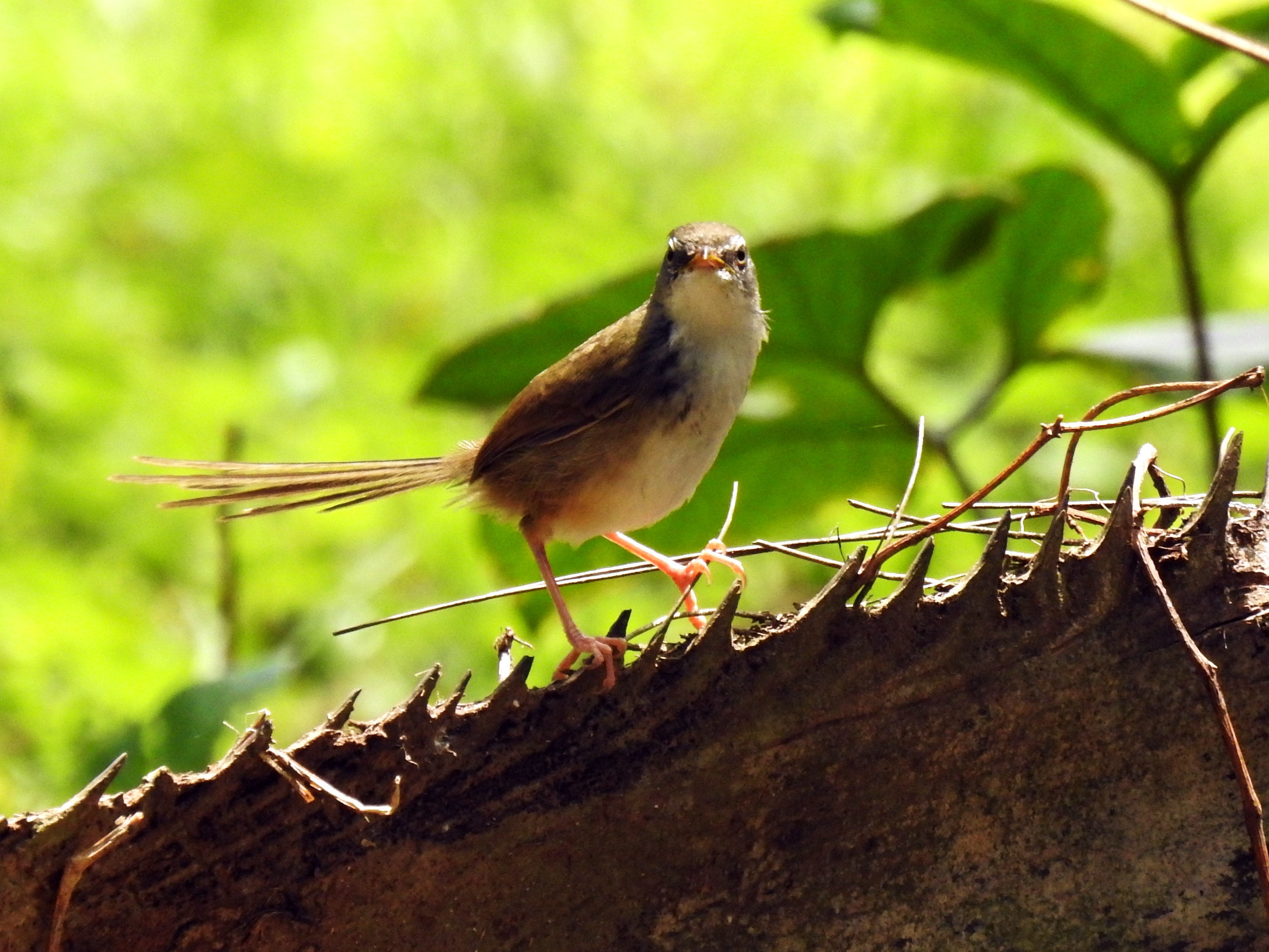 Hill prinia, Prinia superciliaris dysancrita, female: searching for food under the oilpalm stands. From Sipispis, North Sumatra, Indonesia.